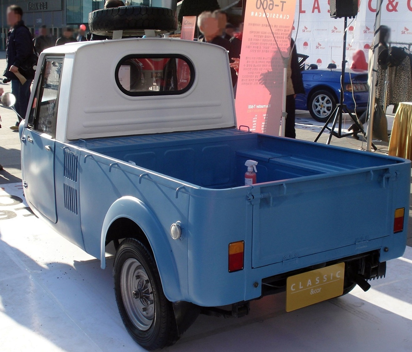 Kia T600